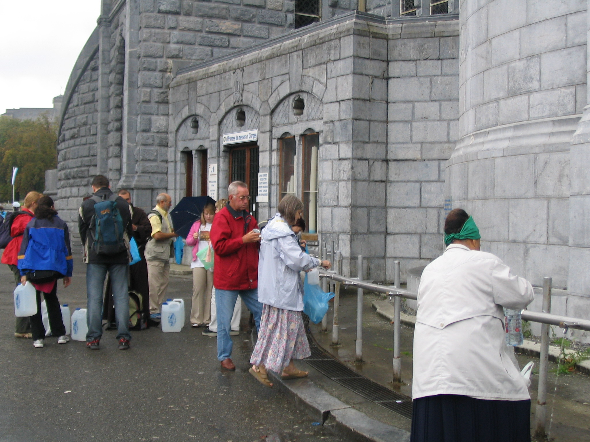 People filling their bottles with Holy Water from Lourdes